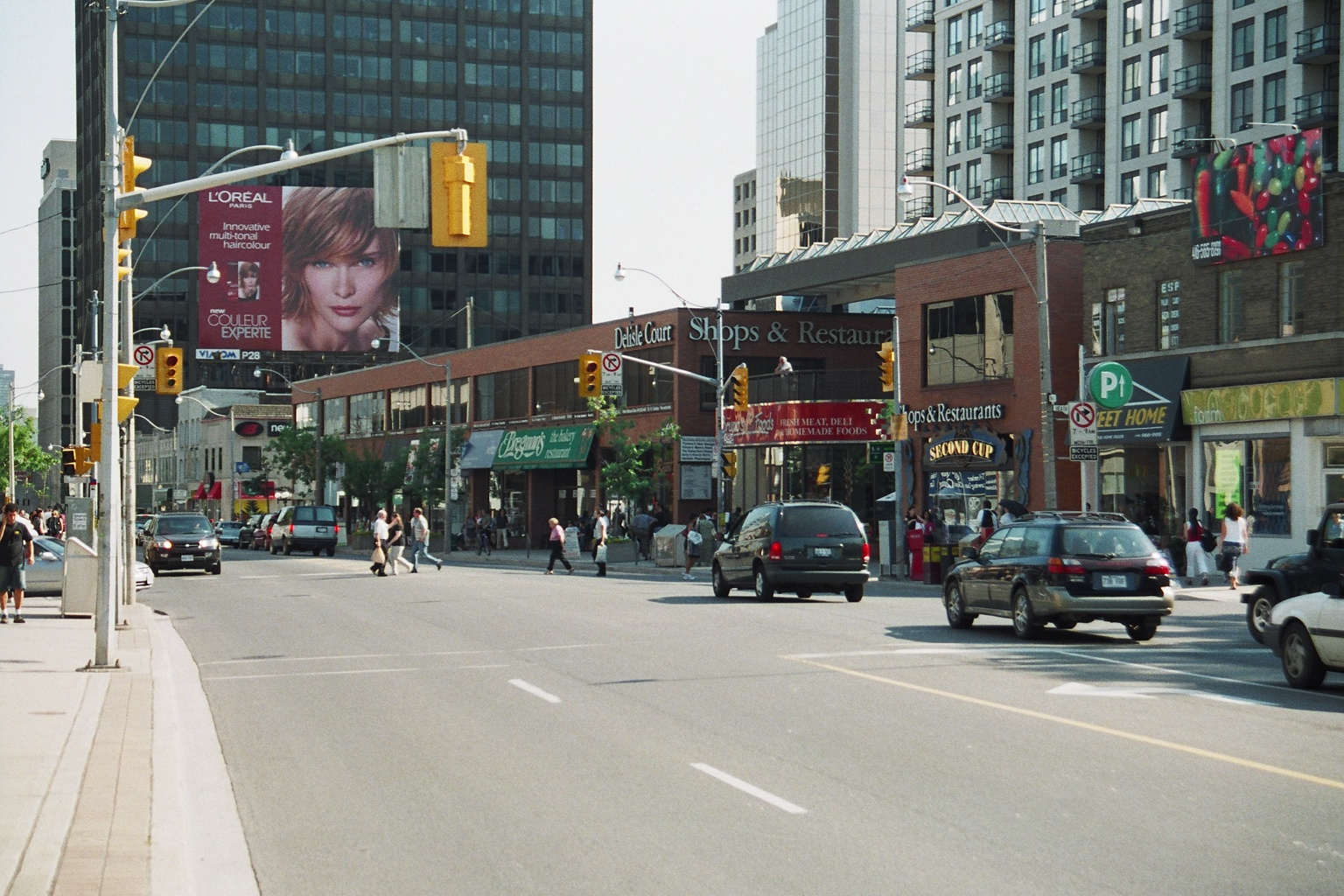 Deer Park, Toronto, Ontario, August 2003